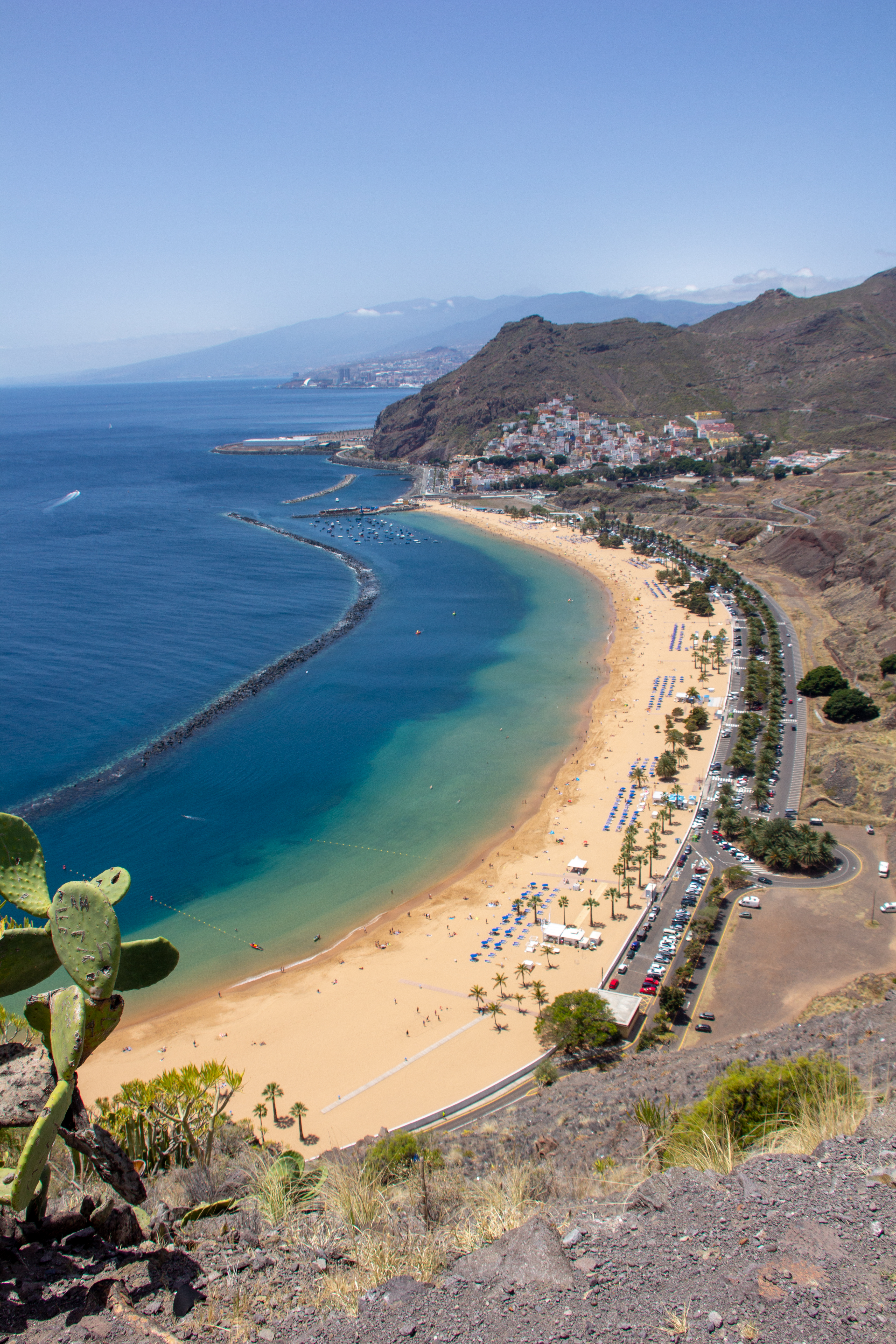 At Tenerife, Spain